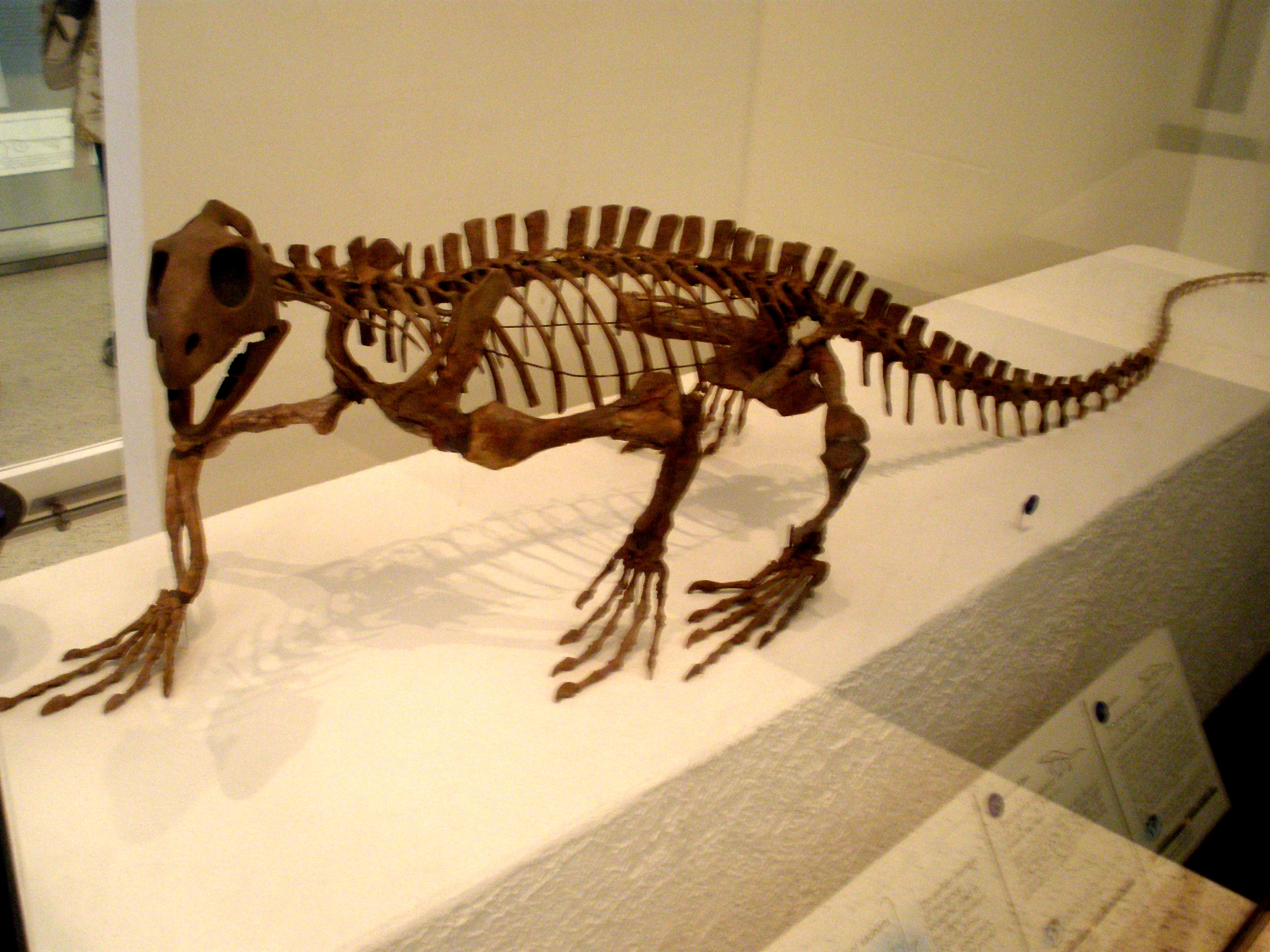 fossil of Trilophosaurus, an extinct reptile